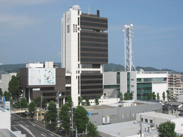 Photograph of Shizuoka Shimbun-SBS Building, the headquarters of Shizuoka Shimbun and Shizuoka Broadcasting System, in Shizuoka, Japan, taken on 20 August 2006 by original uploader. 建物名：静岡新聞放送会館（静岡市駿河区登呂三丁目） 撮影日：2006年8月20日 セントラルスクエア静岡屋上駐車場よりNiba本人が撮影